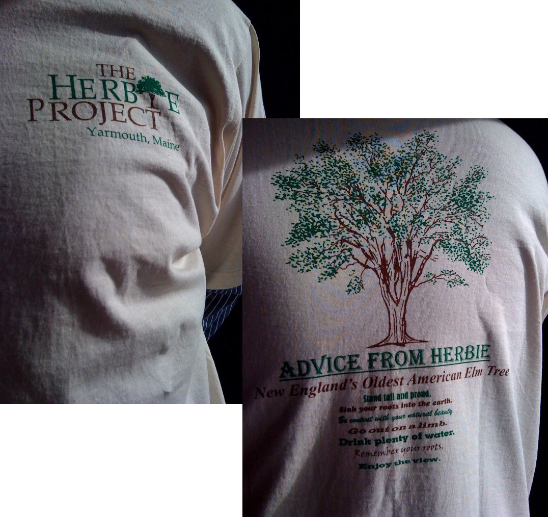 A photo of a "The Herbie Project" souvenir T-shirt.